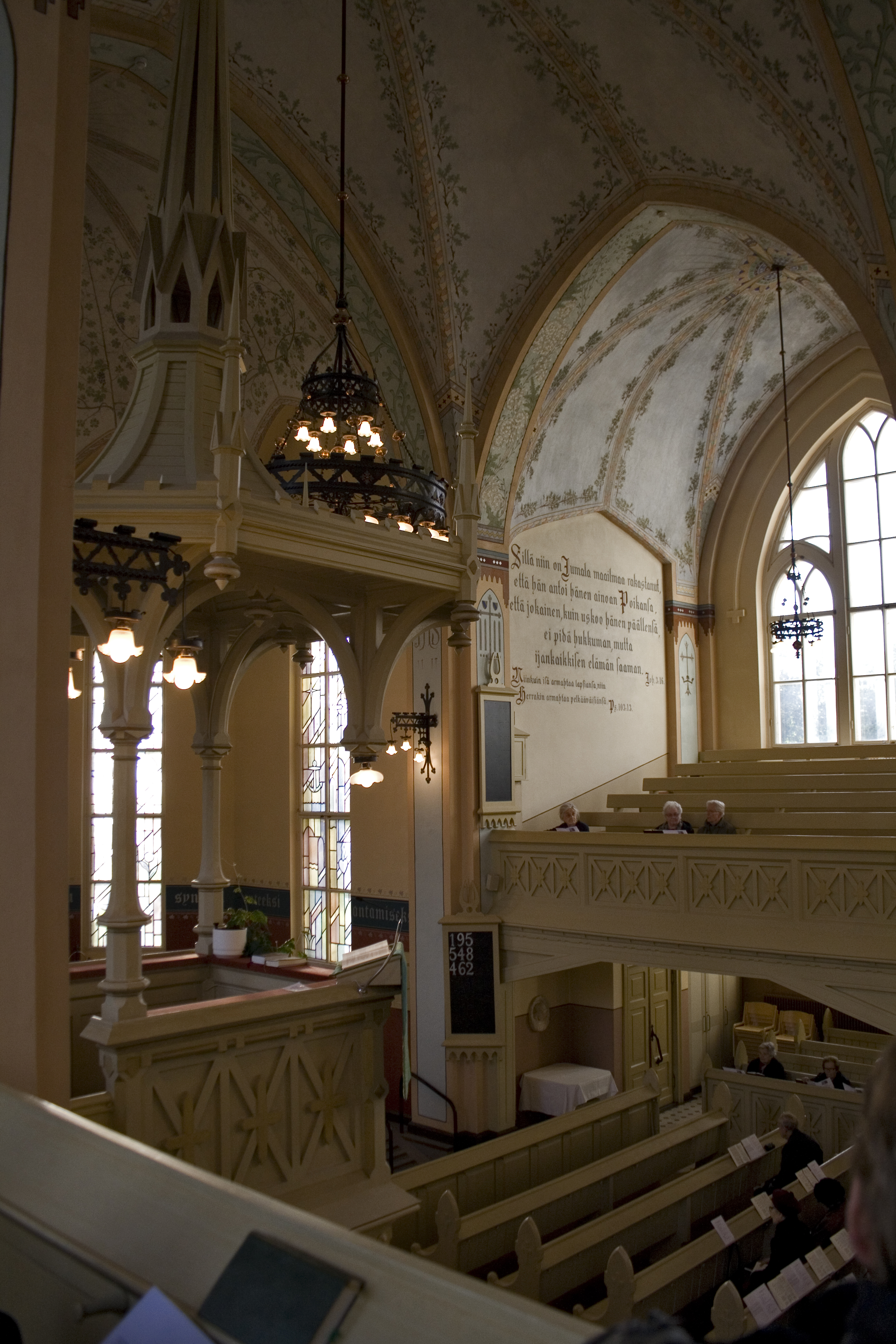 Evangelic church in Joensuu, Finland, 2015